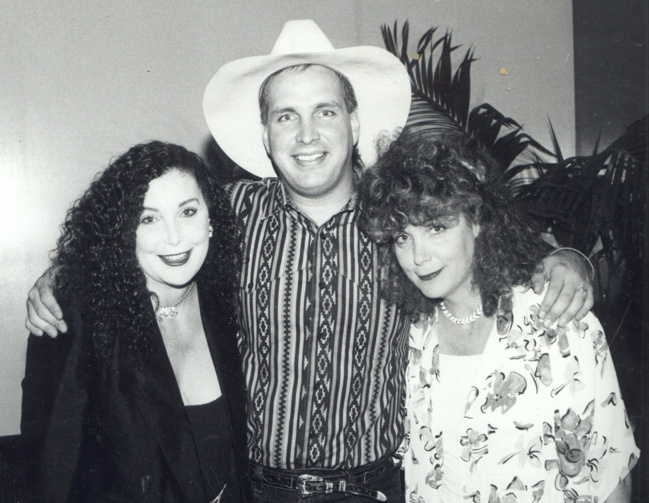 My twin sister Jennie was approached by Garth's manager Pam Lewis who asked her to help introduce Garth to Hollywood. Jennie did so and we were invited to the rehearsals and the Country Music Award shows in both 1990 and 1991.